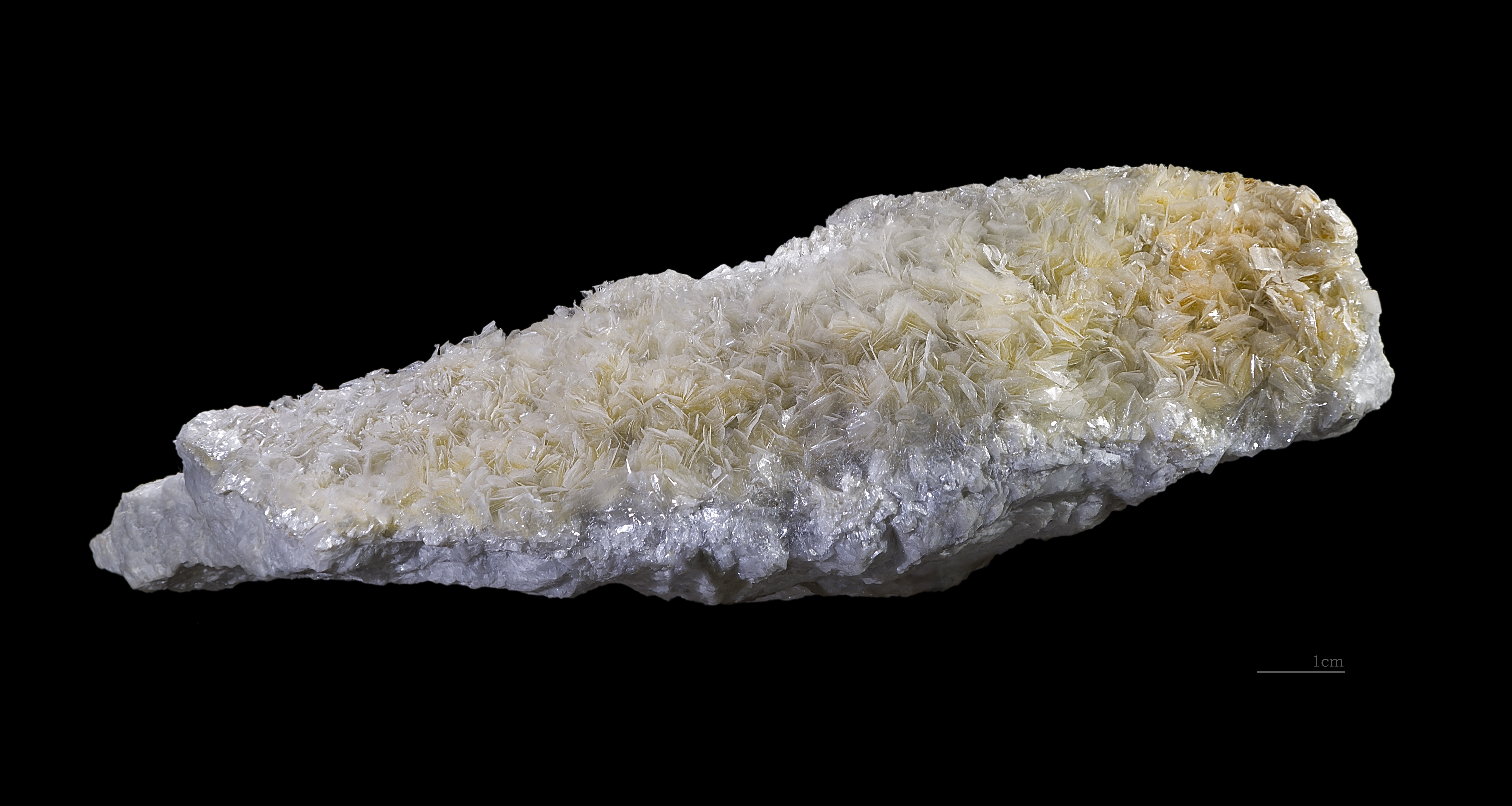 Crystals of talc.